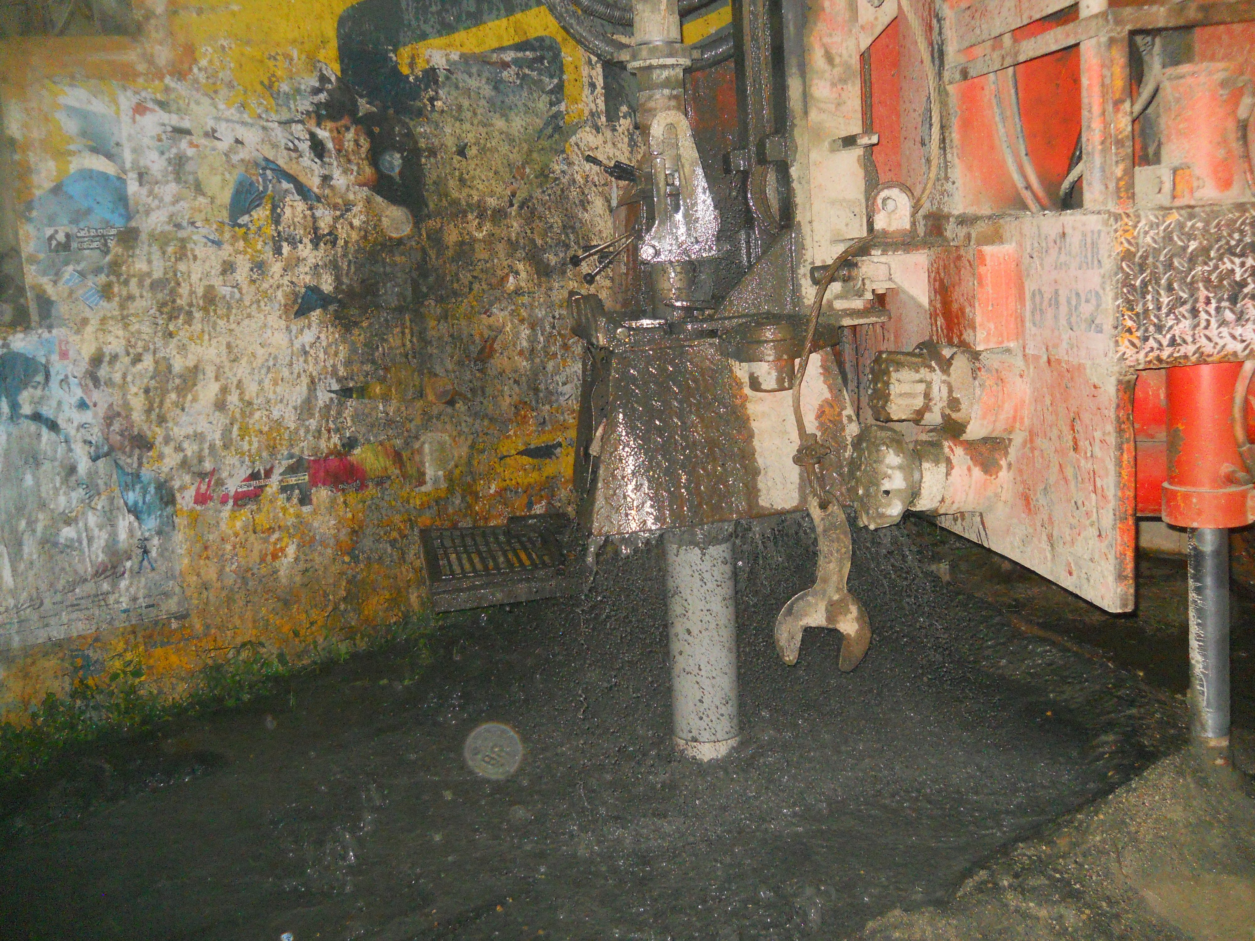 Water Bore well